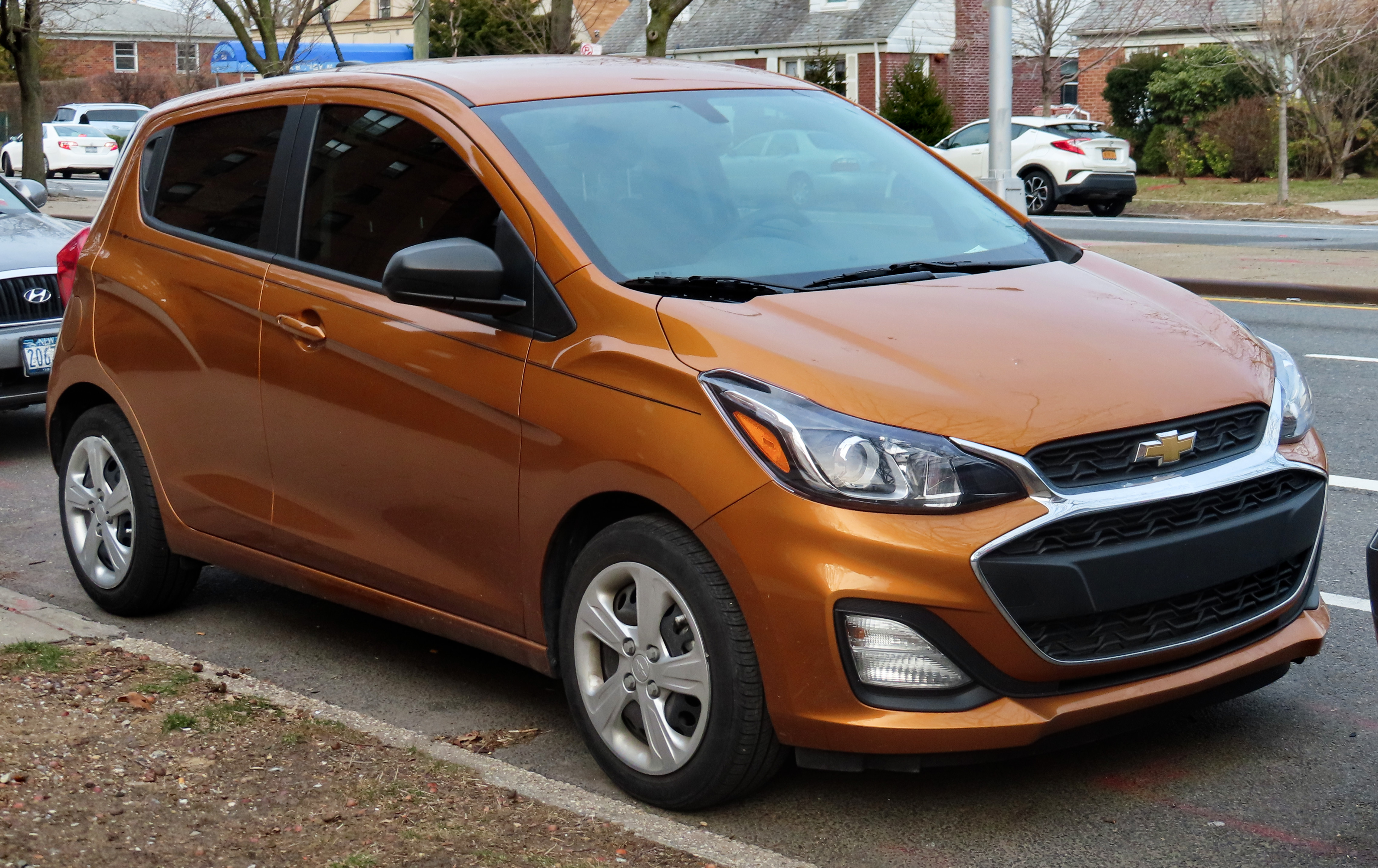 A 2019 Chevrolet Spark LS photographed in Pomonok, Queens, New York, USA